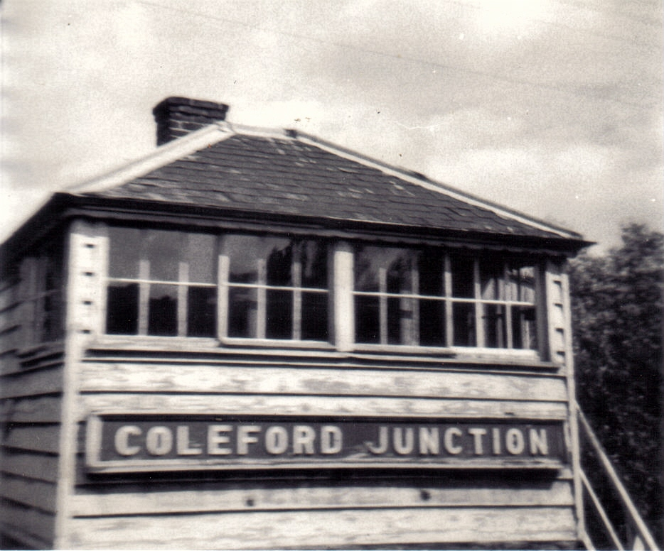 Coleford Junction signal box in October 1970 from an Okehampton bound train, Devon, England.